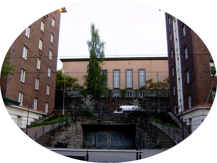 Helsinginkatu, Helsinki, stairs ascending to Torkkelinmäki